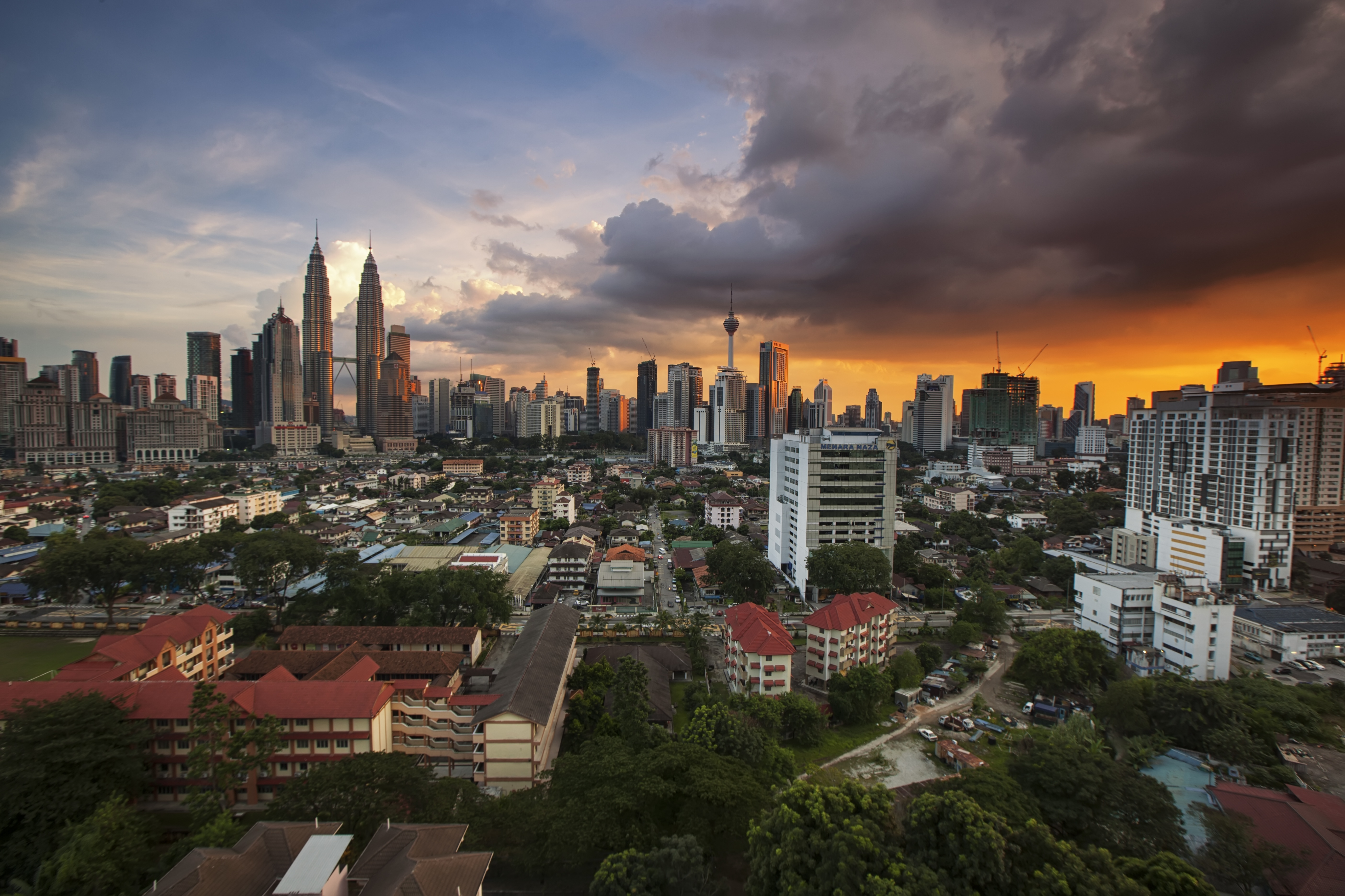 Kuala Lumpur Skyline at dusk